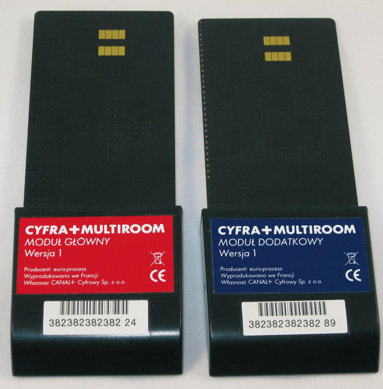 CYFRA+MULTIROOM, printed circuit board in place of smart card